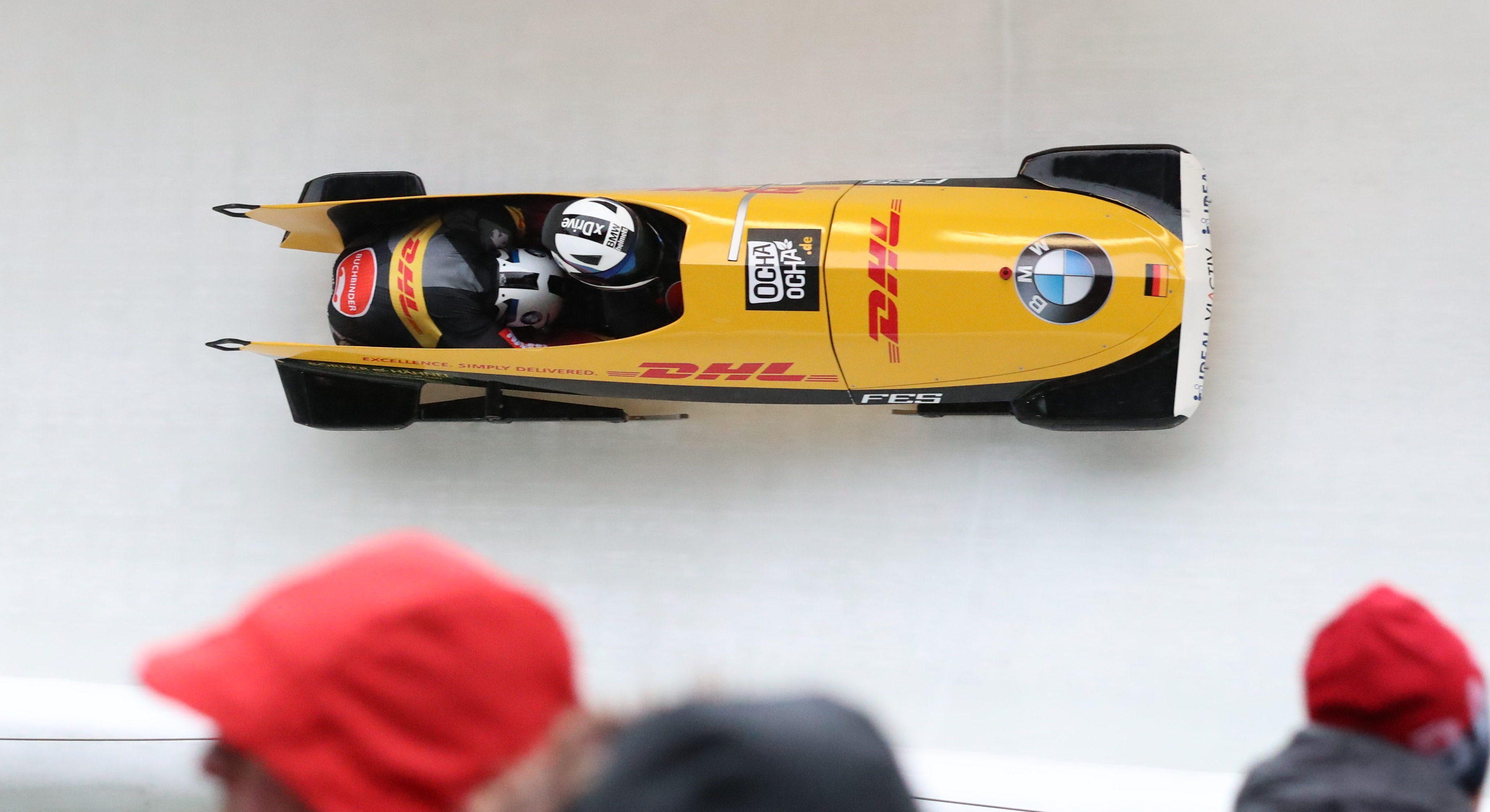 3rd run at the 2-man bobsleigh at the Bobsleigh and Skeleton World Championships 2020 in Altenberg